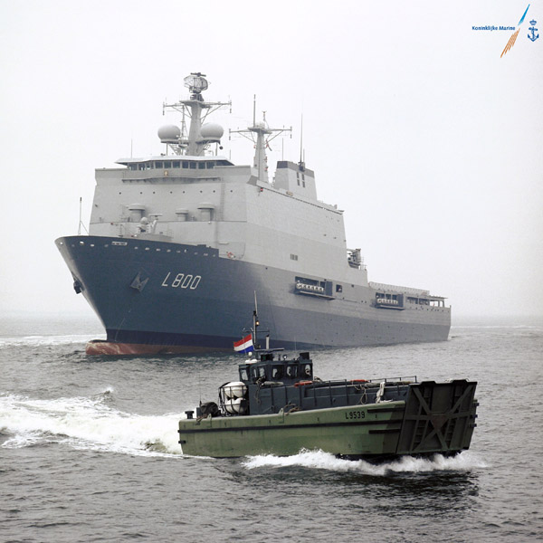 Dutch naval ship Rotterdam (1998)